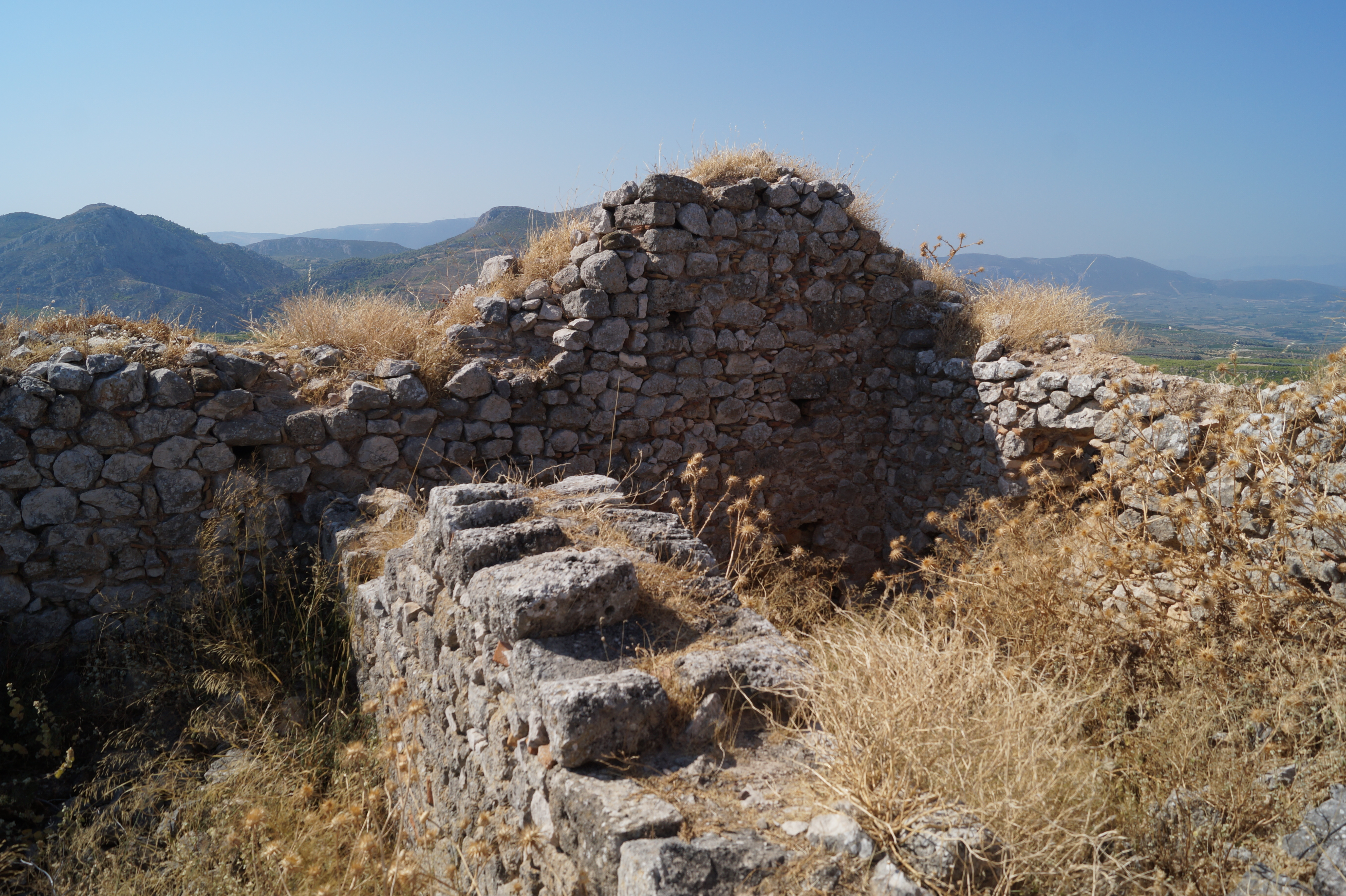 Corinth, Greece: View inside the tower of Penteskoufi Castle. The outer wall was built of crude limestone in Frankish times. The interior wall built of wrought Porphyry dates to Venetian times.